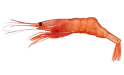 Northern prawn, Pandalus borealis